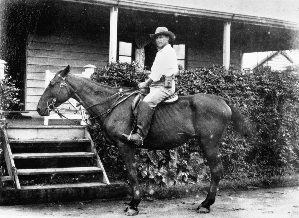 Sir Alfred Sandlings Cowley on a horse, Manager's house on 'Hamleigh' near Hinchinbrook, Queensland, ca. 1887